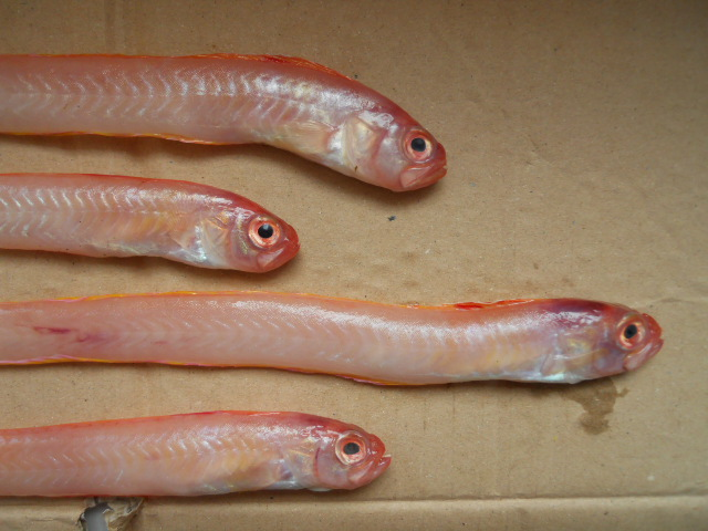 Cepola macrophthalma bought in Grosseto fish market (Tuscany, Italy).